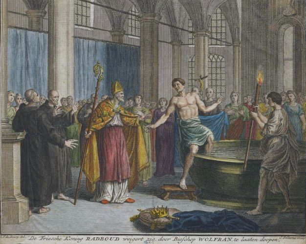 Redbad, King of the Frisians refuses to be baptized